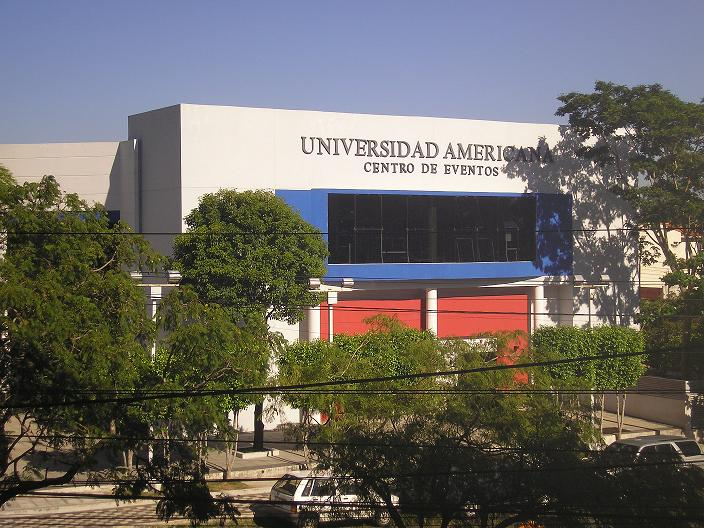 Events Center at the American University of Asunción